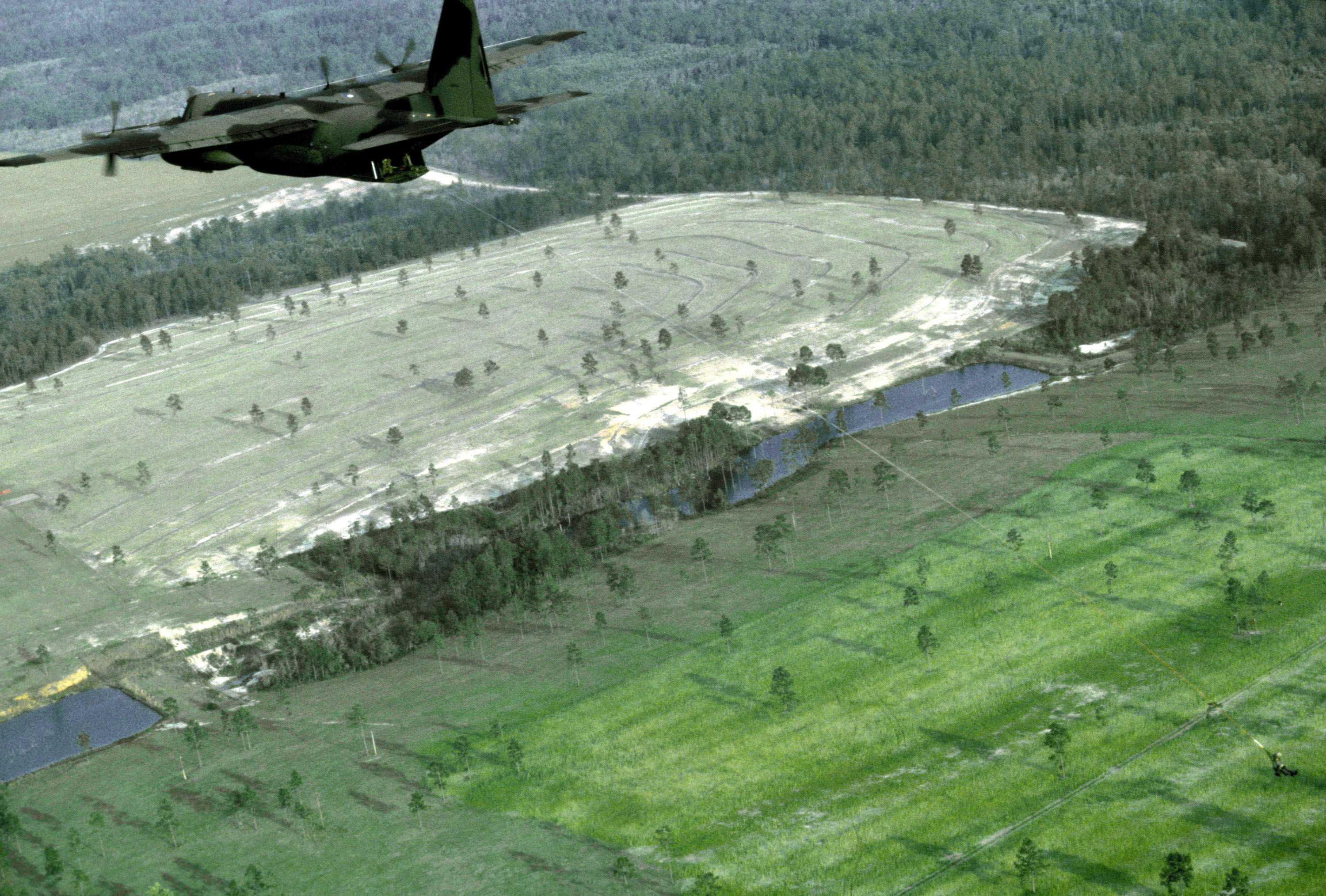 An air-to-air left rear view of an MC-130 Hercules aircraft from the 8th Special Operations Squadron (8th SOS) demonstrating the Fulton Aerial Recovery System.